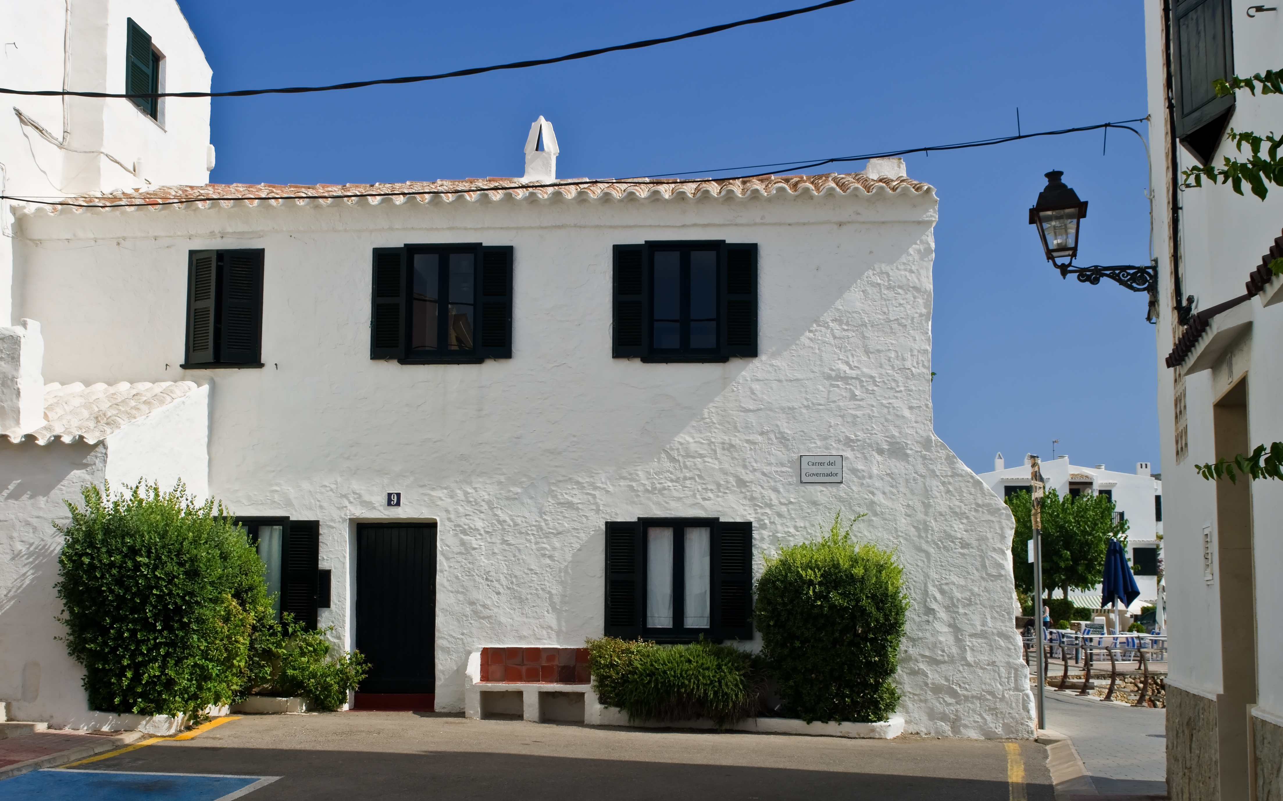 Old building in Fornells, Minorca, Spain.